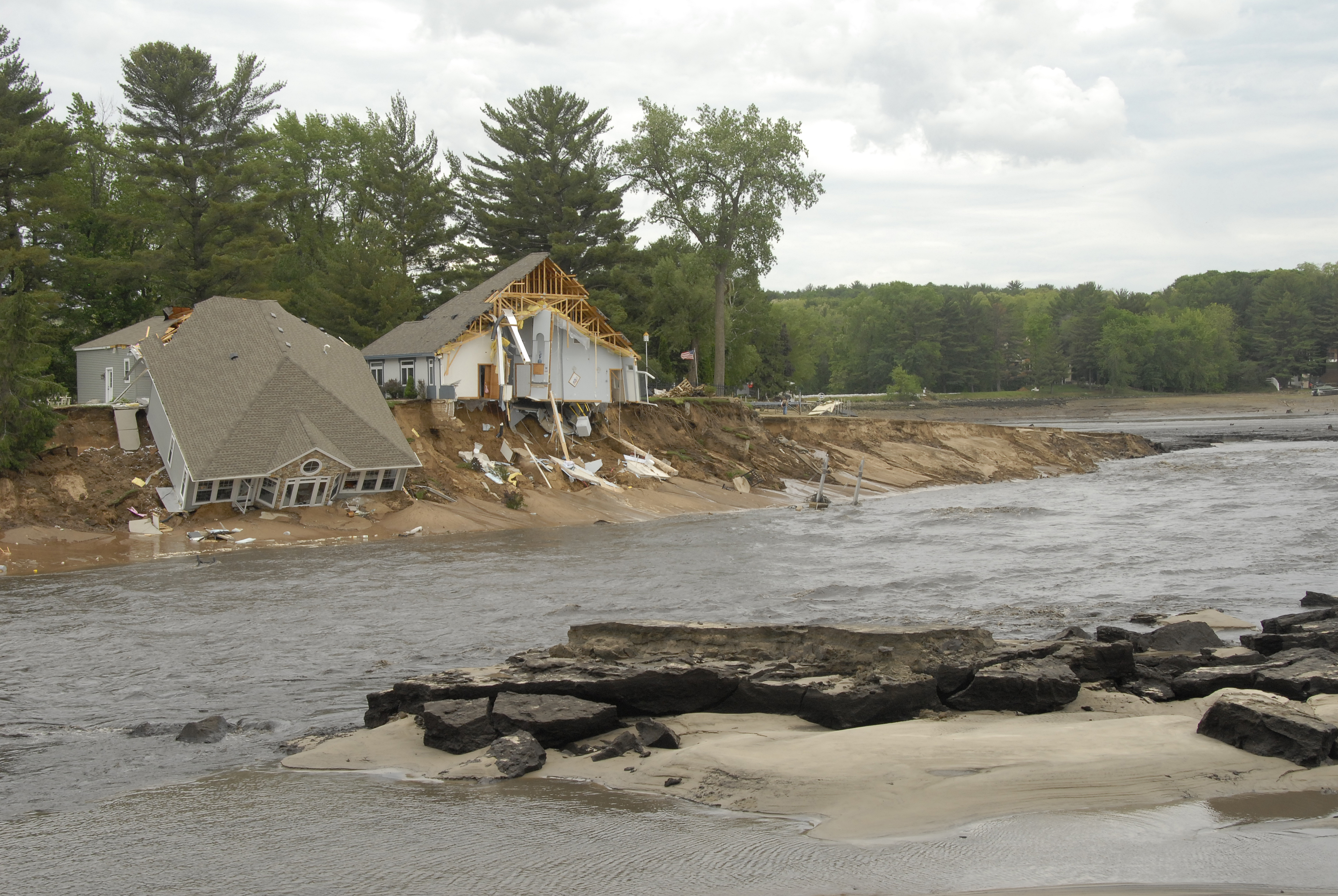 Heavy rains in the Midwest caused a 245-acre lake in the town of Lake Delton, Wis., to overflow June 9, 2008, destroying several homes as it breached a local highway, and completely drained into the nearby Wisconsin River. Serious flooding throughout the State of WI prompted the governor to declare a state of emergency, allowing Wisconsin's Adjutant General U.S. Air Force Brig. Gen. Don Dunbar to activate National Guard troops to assist in the relief effort. (U.S. Air Force photo by Master Sgt. Paul Gorman/Released)